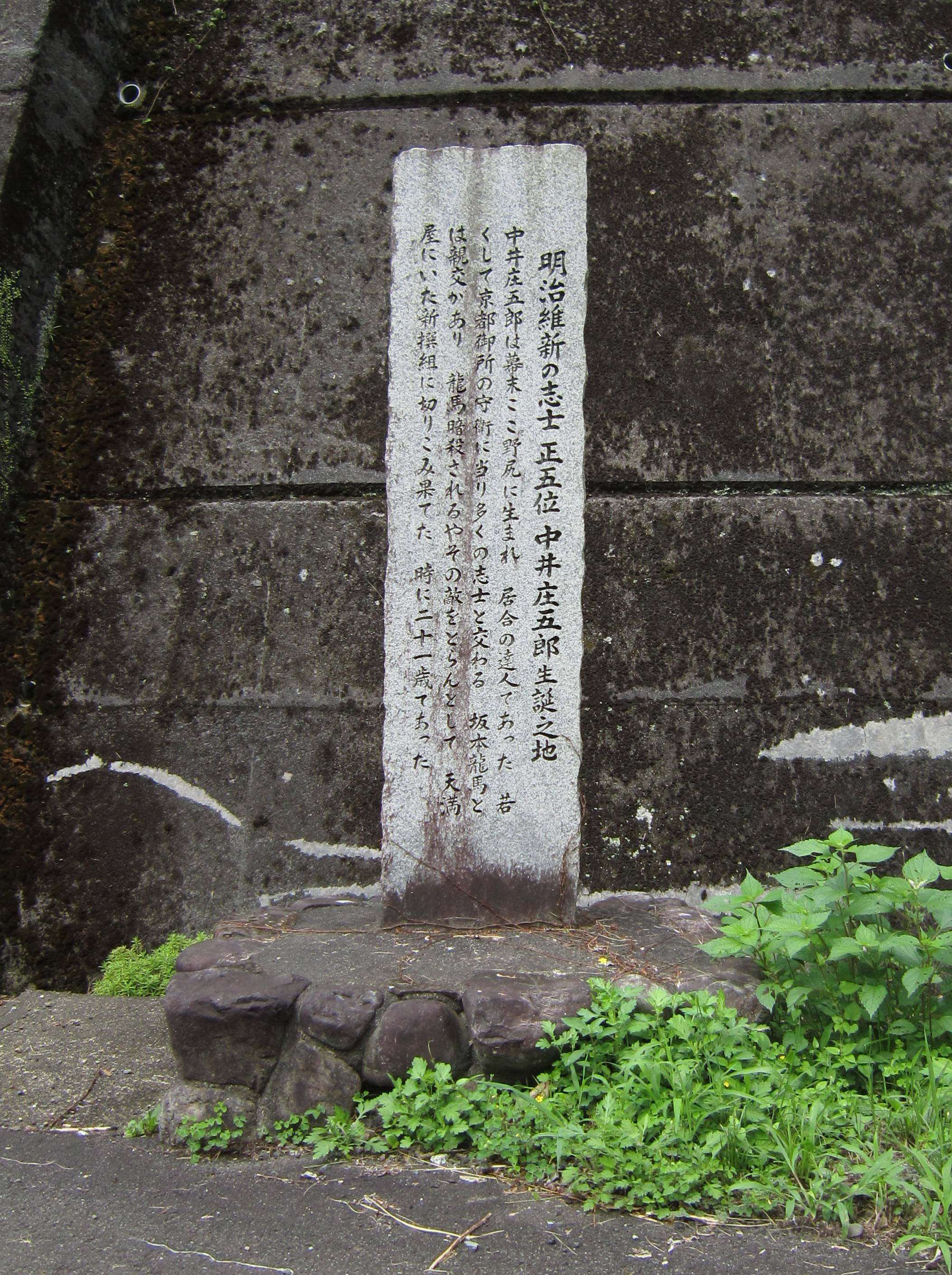 Nakai Shogoro birthplace monument.